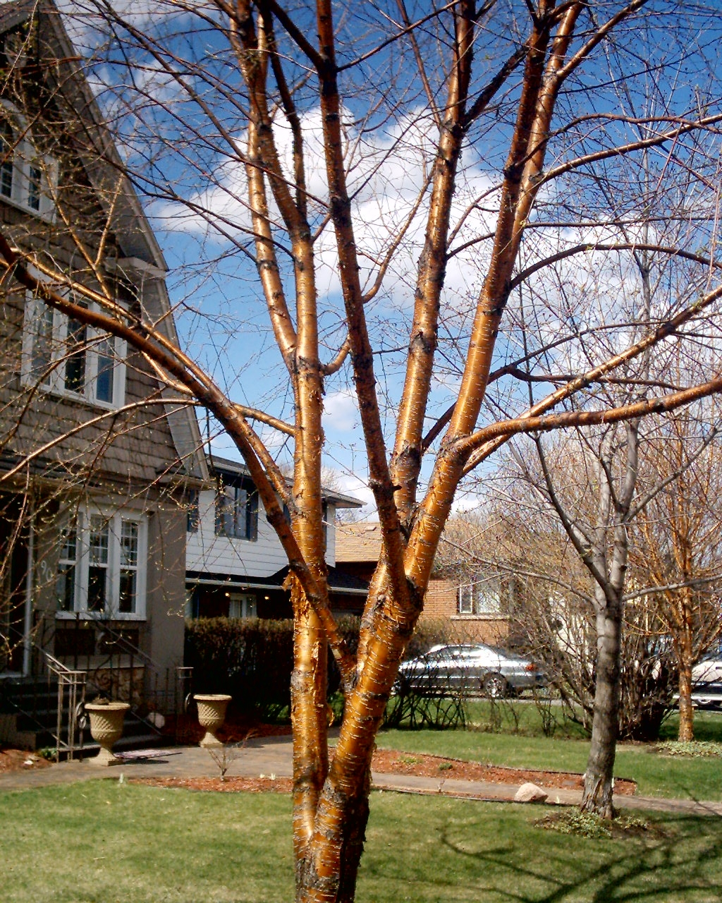 A Yellow Birch tree in Thunder Bay, Ontario